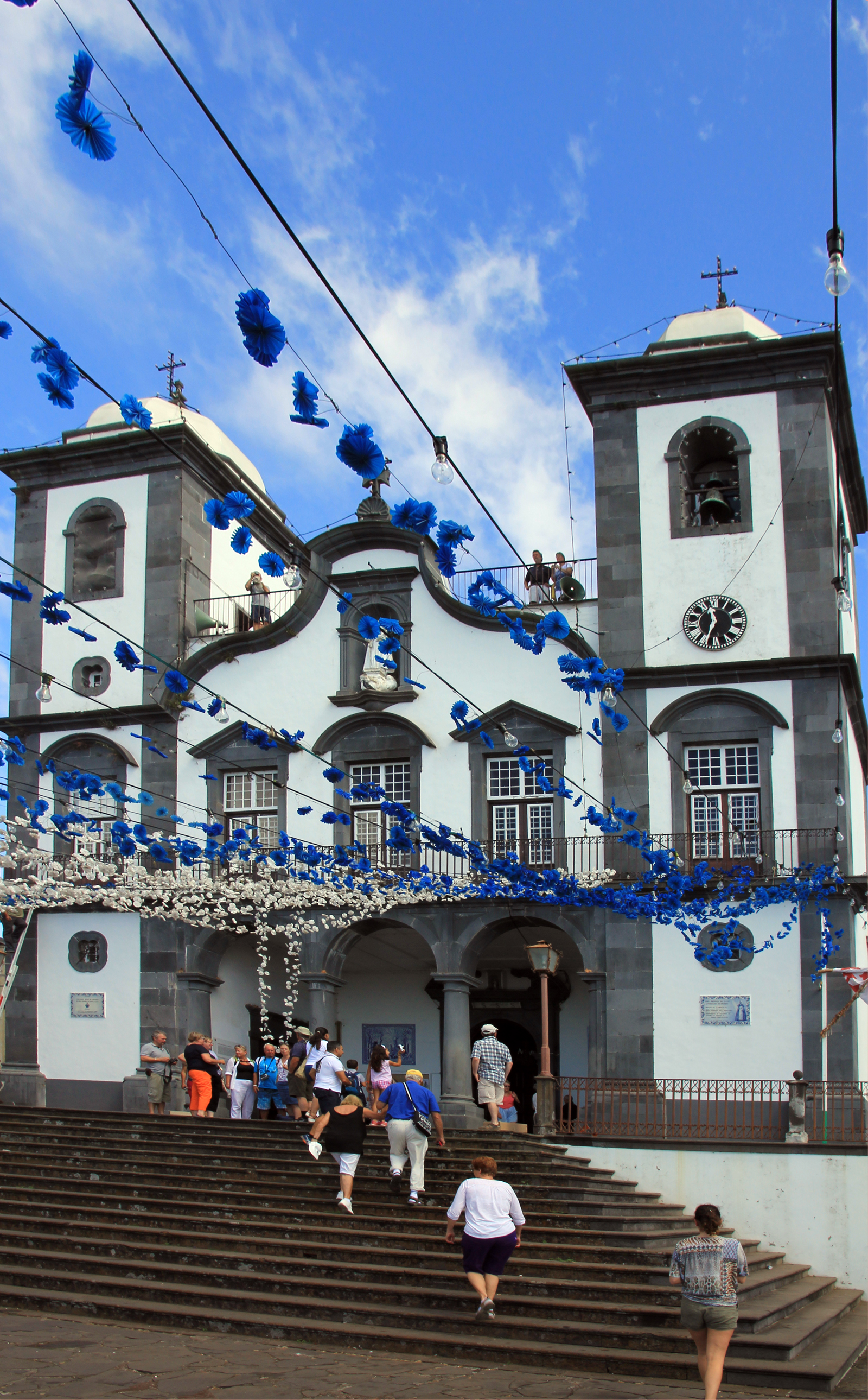 Front side of church Igreja de Nossa Senhora do Monte decorated for celebration of holiday in Funchal, Madeira